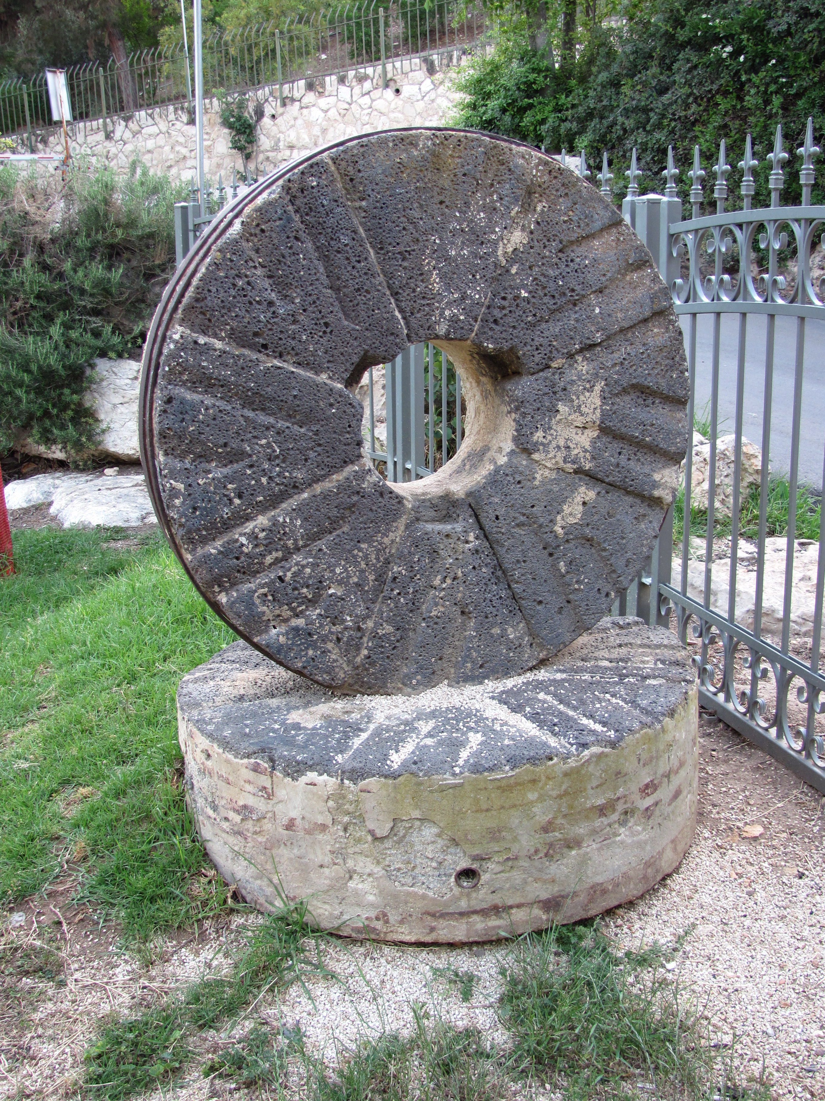 The two millstones from Jerusalem's first flour mill, established in 1886 by Yehoshua Berman of Berman's Bakery. The millstones stand on the original site of the flour mill outside the Old City walls, which today is located behind the Jerusalem Arts and Crafts Lane, northeast of Yemin Moshe.